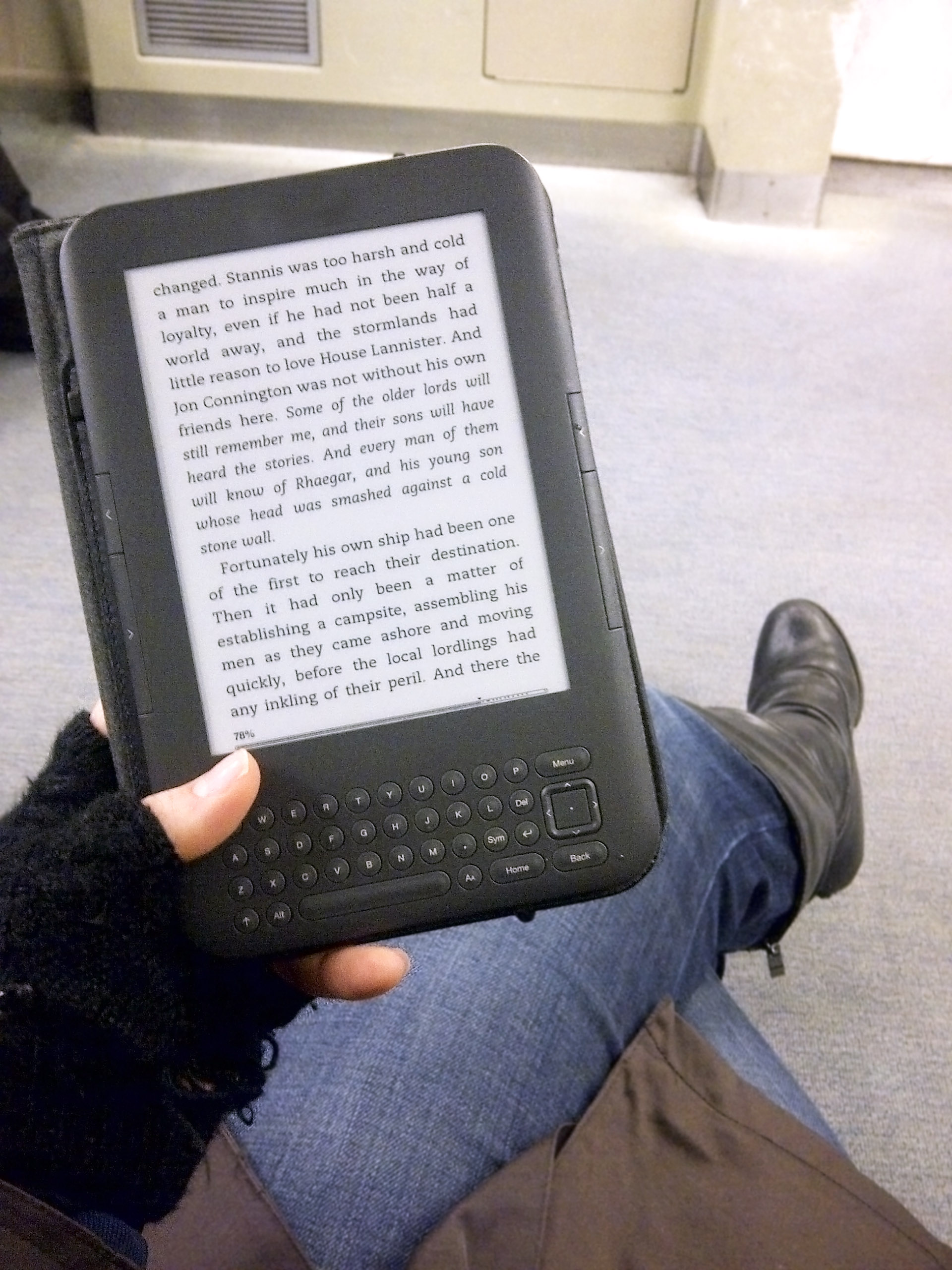 reading an e-book electronic book on public transit train or bus instead of driving. demonstrating an example of environmentally friendly behavior, green practices, sustainable living.